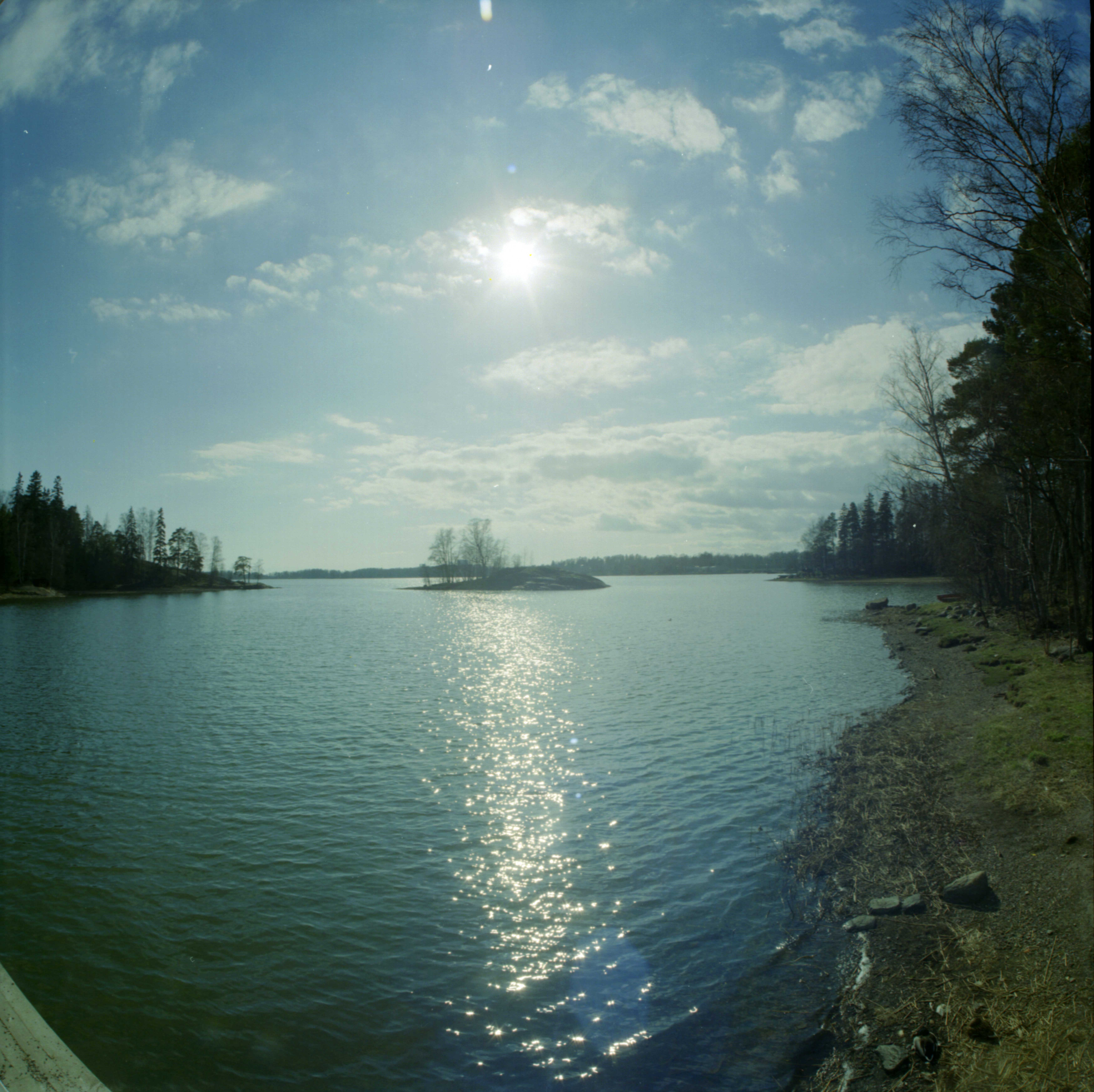 View from the bridge to the isle Seurasaari in Helsinki, Finland